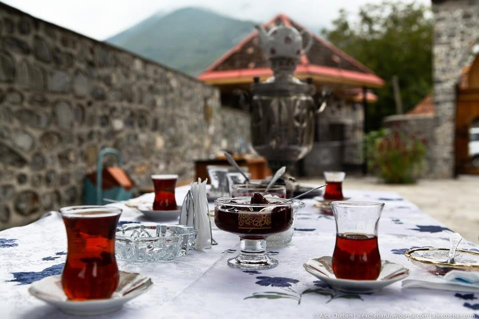 Azerbaijani national tea